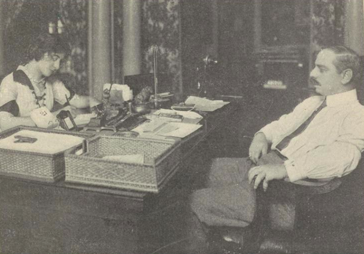 Portrait of "Marcus Loew in his forty-second street office." Marcus Loew (May 7, 1870 – September 5, 1927) was an American business magnate and a pioneer of the motion picture industry who formed Loews Theatres and Metro-Goldwyn-Mayer (MGM).